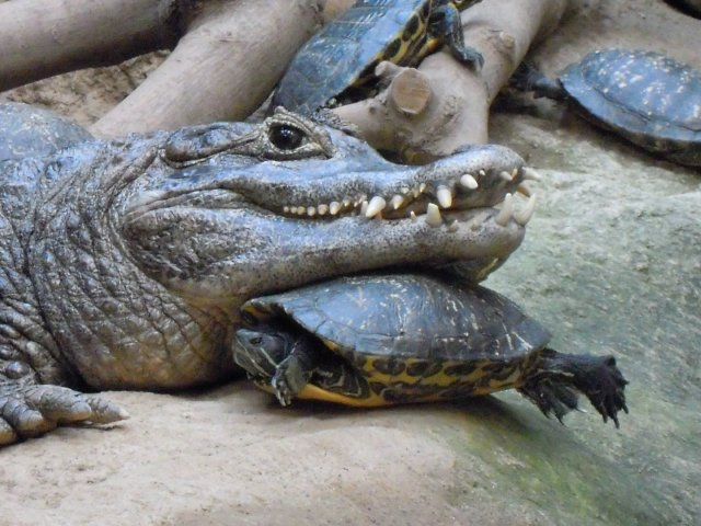 crocodile